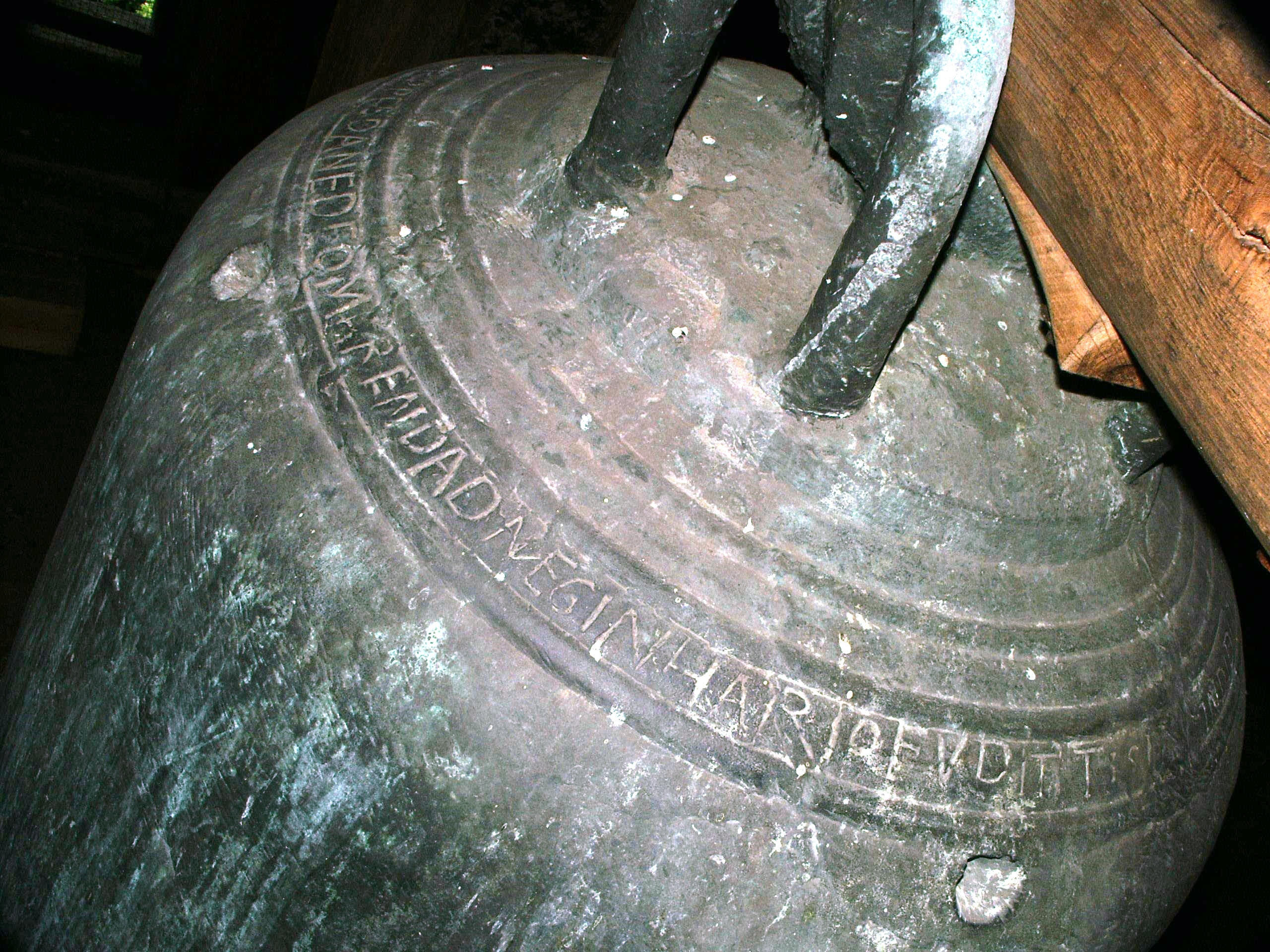 parts of the casted inscription in the Lullusglocke from 1038